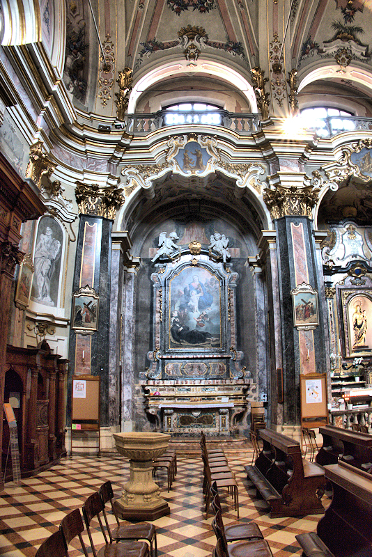 First chapel on the left of "Santissima Trinità" church in Crema, Italy